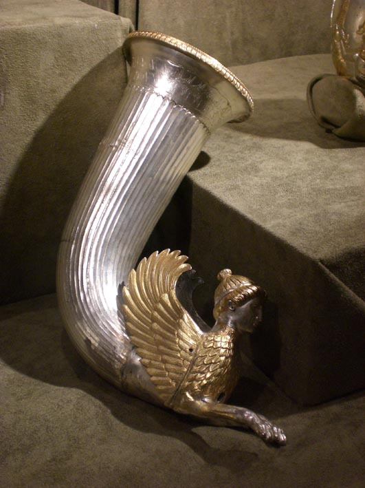 Thracian silver treasure from Borovo, Rousse region, Bulgaria, IV BC, Rousse Museum of History. Sphynx protome rhyton.